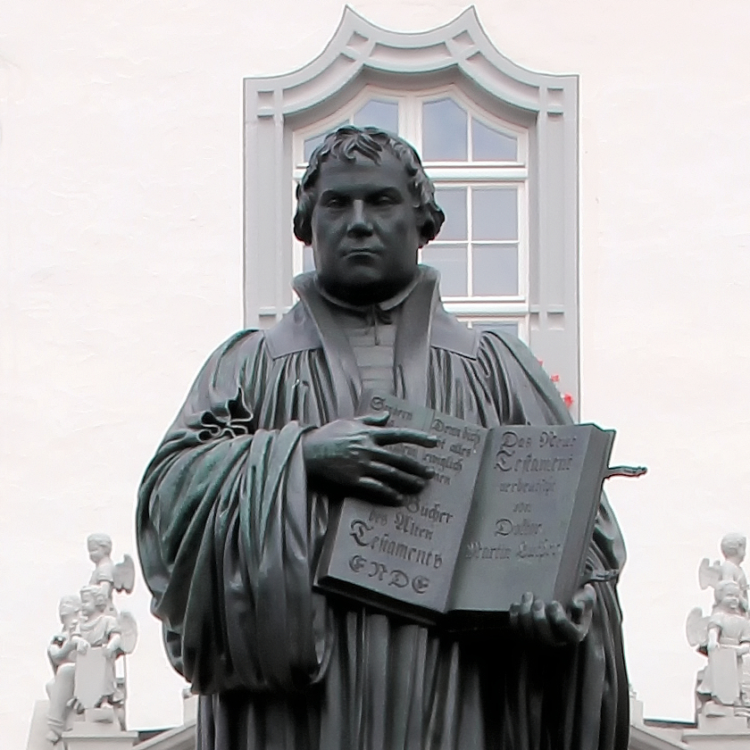 Memorial statue, Martin Luther, Marktplatz , Lutherstadt Wittenberg, Germany Koordinate:51°51′59″N 12°38′39″E / 51.86639°N 12.64417°E